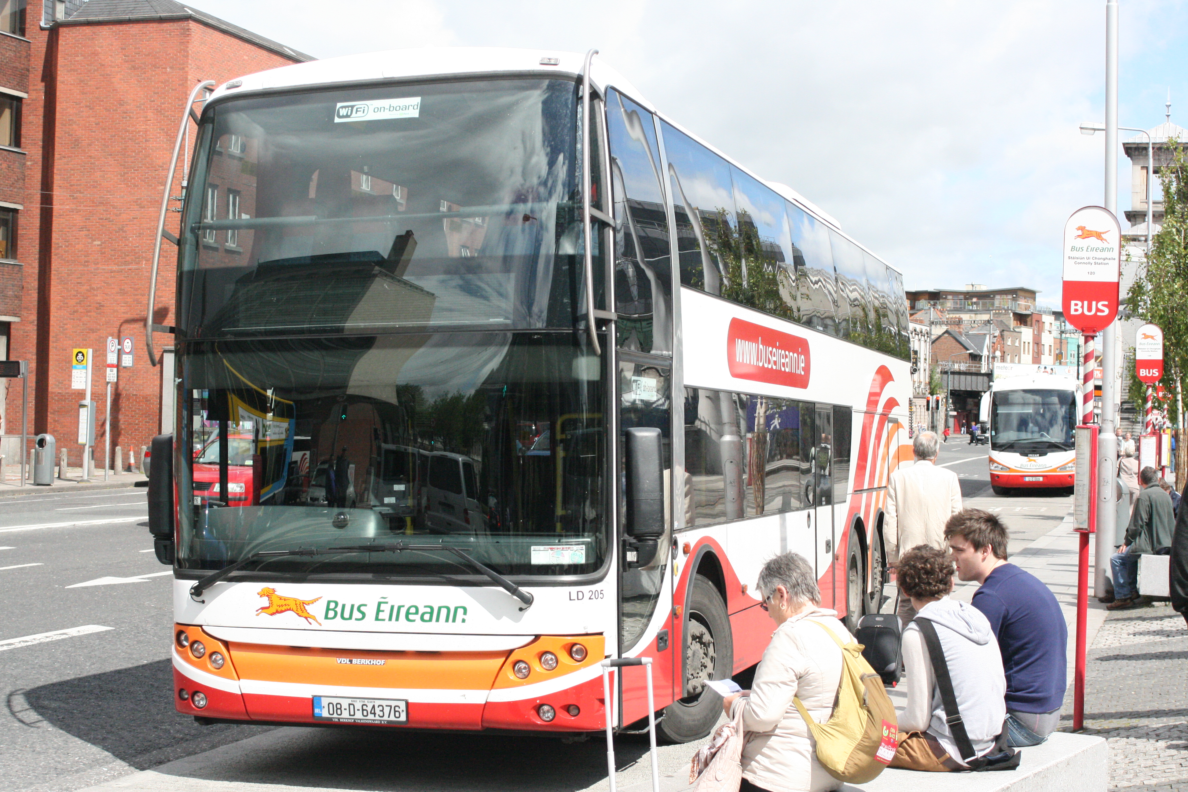 A Bus Éireann VDL Berkhof Axial 100, registration 08-D-64376, outside Dublin Connolly railway station.